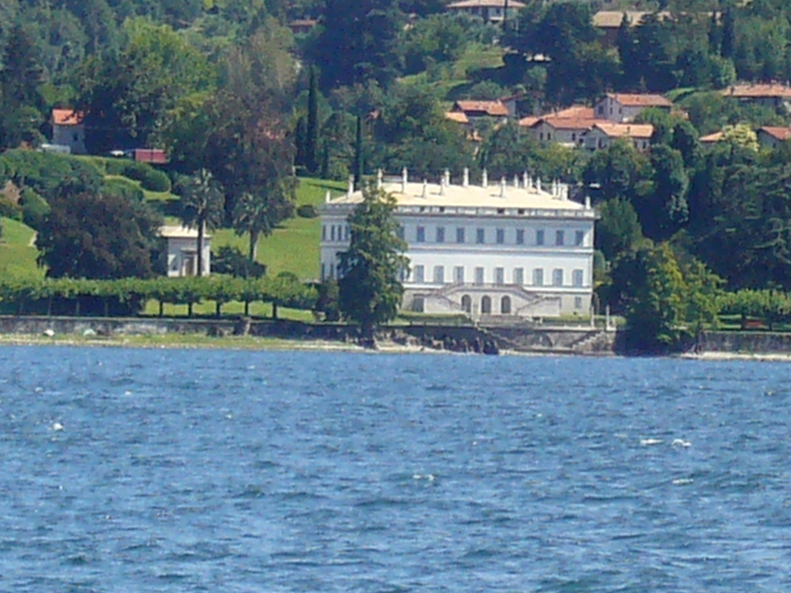 Villa Melzi in Bellagio, Italy. Picture taken by Susanne Acht, August 13, 2006.